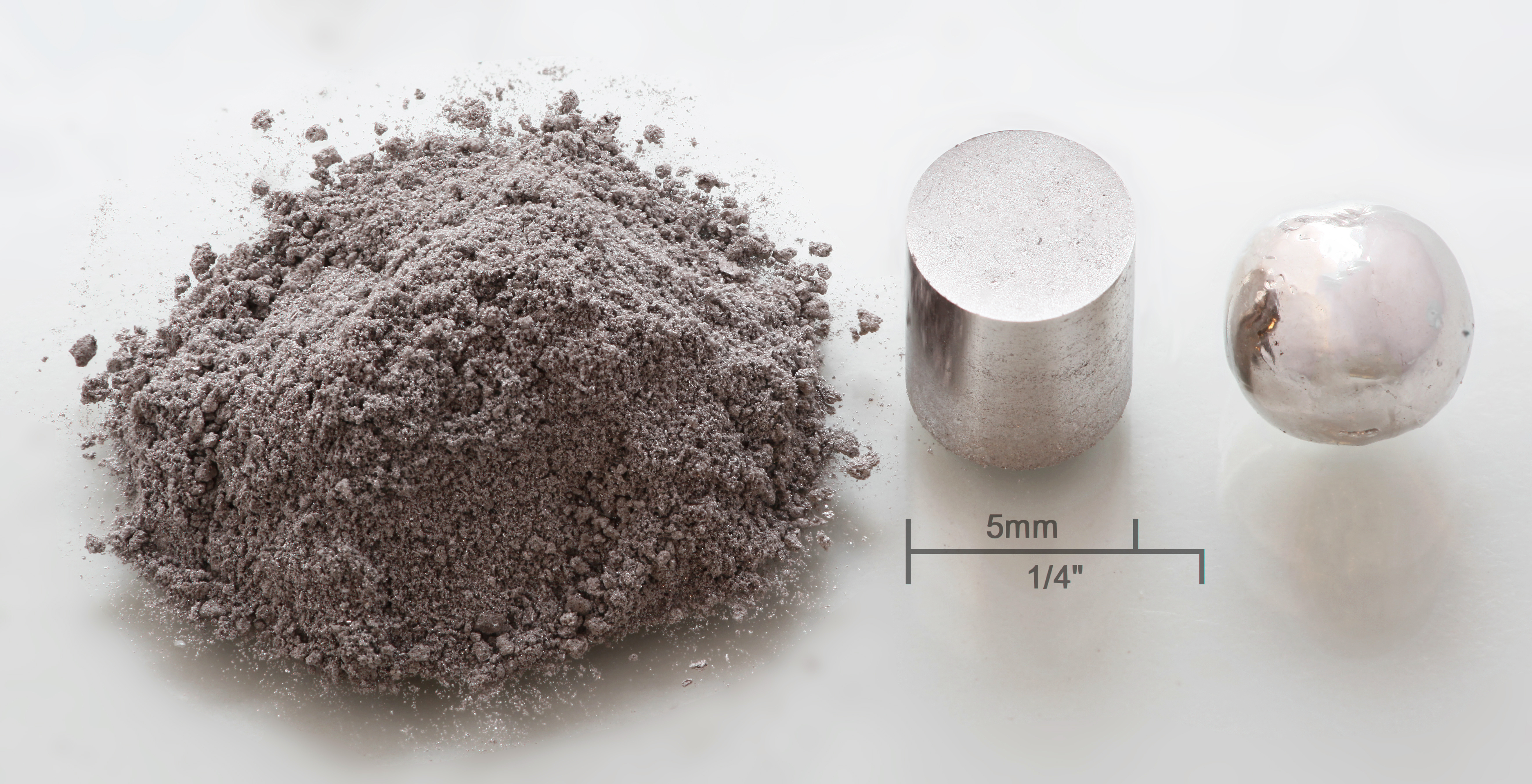 the chemical element Rhodium: processing: 1g powder, 1g pressed cylinder, 1 g argon arc remelted pellet.